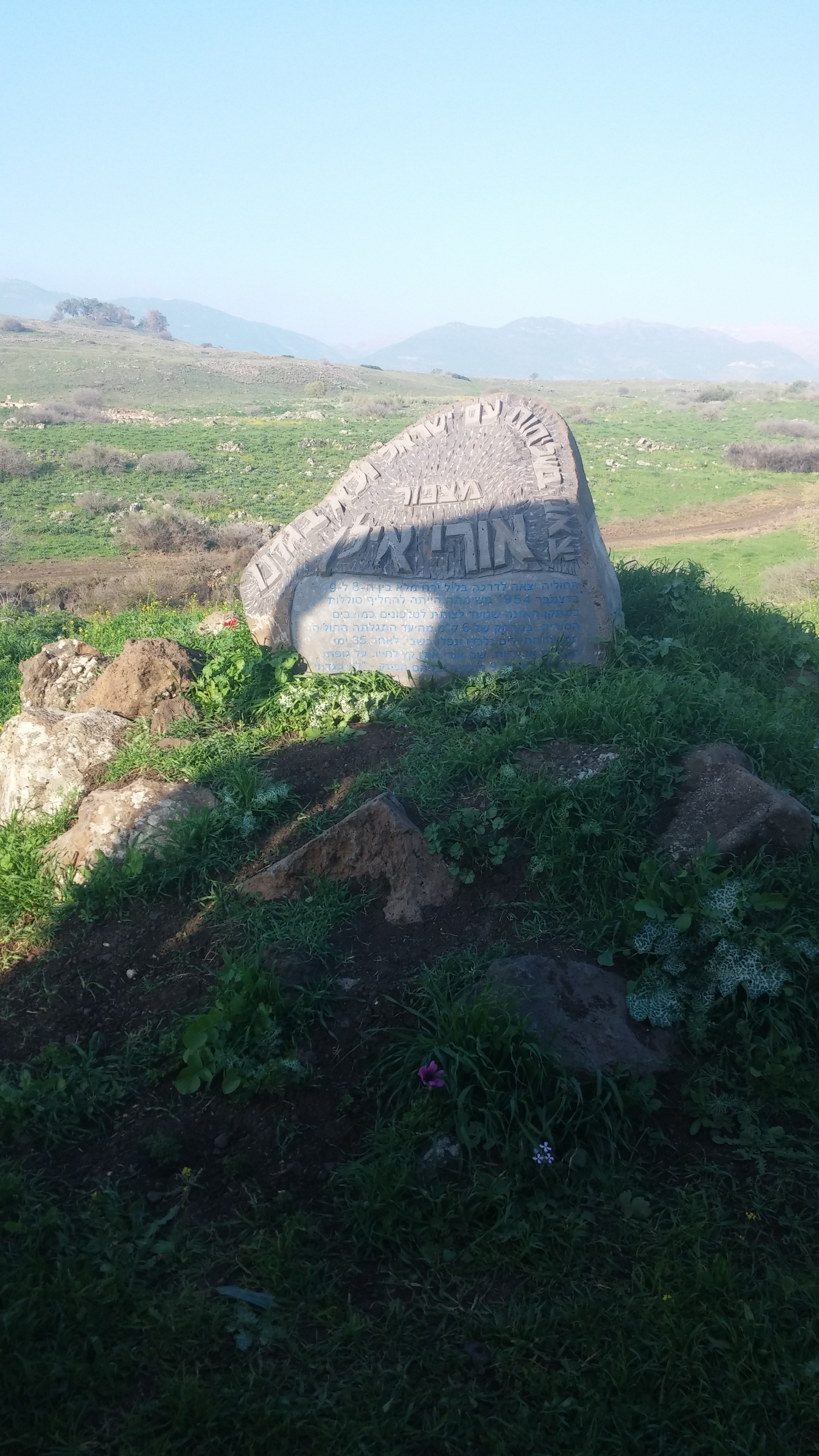 Following the trail of Uri Ilan